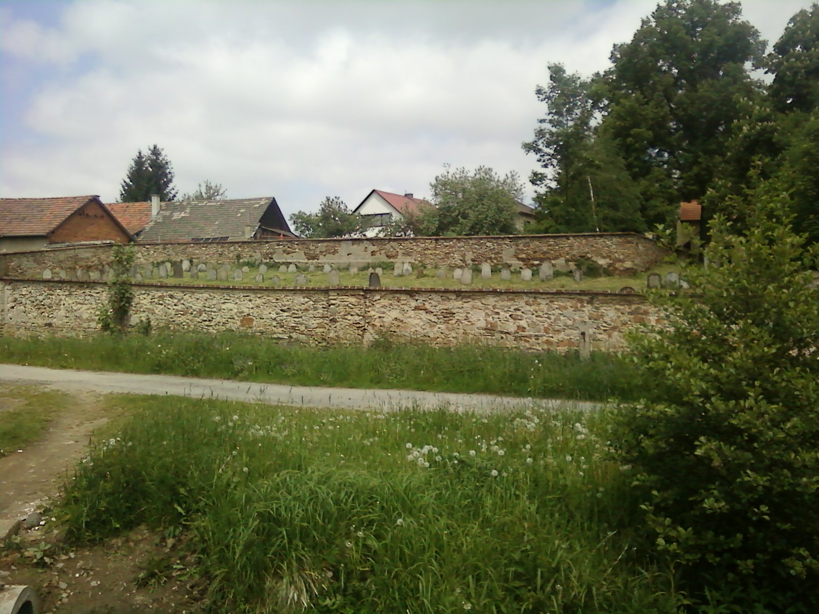 pohled od bezejmenného přítoku Cerekvického potoku